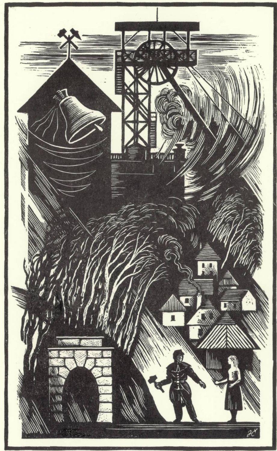 Jan Čáka: The Poppet-head in Příbram